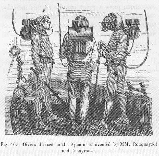 Divers dressed in the Apparatus Invented by MM. Bouquayrol and Dennyrouze Subject: Divers, Diving--Equipment and supplies Tag: People